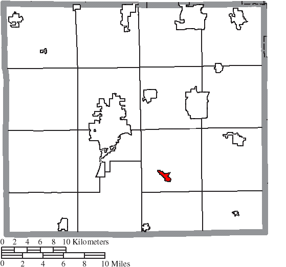 Map of the municipal and township boundaries of Wayne County, Ohio, United States, as of the 2000 census, with the location of the village of Apple Creek highlighted. Township borders are shown only in unincorporated areas in order to differentiate incorporated and unincorporated areas more clearly.